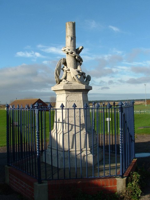 Shipwreck rescue memorial, Wells next the Sea This memorial is on the corner of the road leading to Pinewoods, opposite the Harbourmaster's Office.